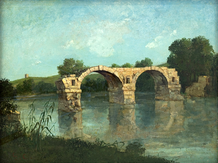 Pont Ambroix on the Vidourle in Herault, 1857